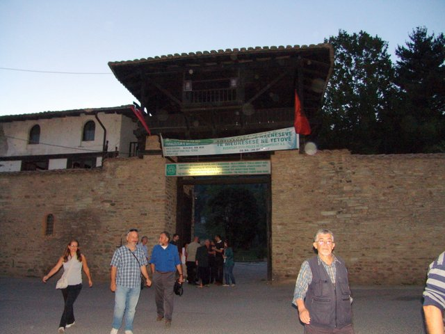 Harabati Baba Bektaşi Tekkesi (Arabati Baba Teḱe) - Kalkandelen (Tetovo), Makedonya 23 Eylül (Sept.) 2012